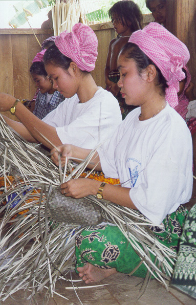 Cham basket weavers in Kratie, Cambodia